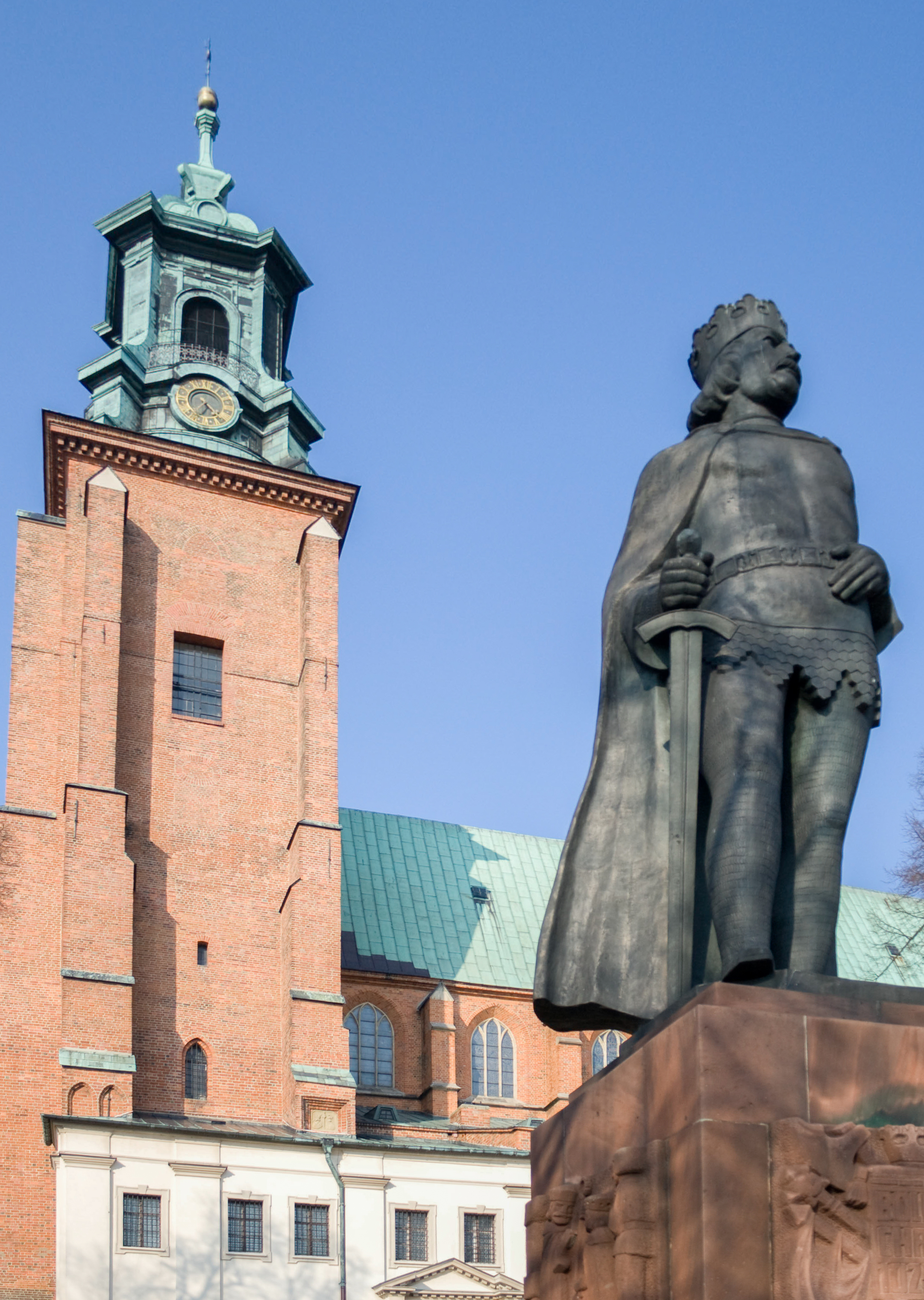 Statue of Boleslaus I of Poland, Gniezno, Poland